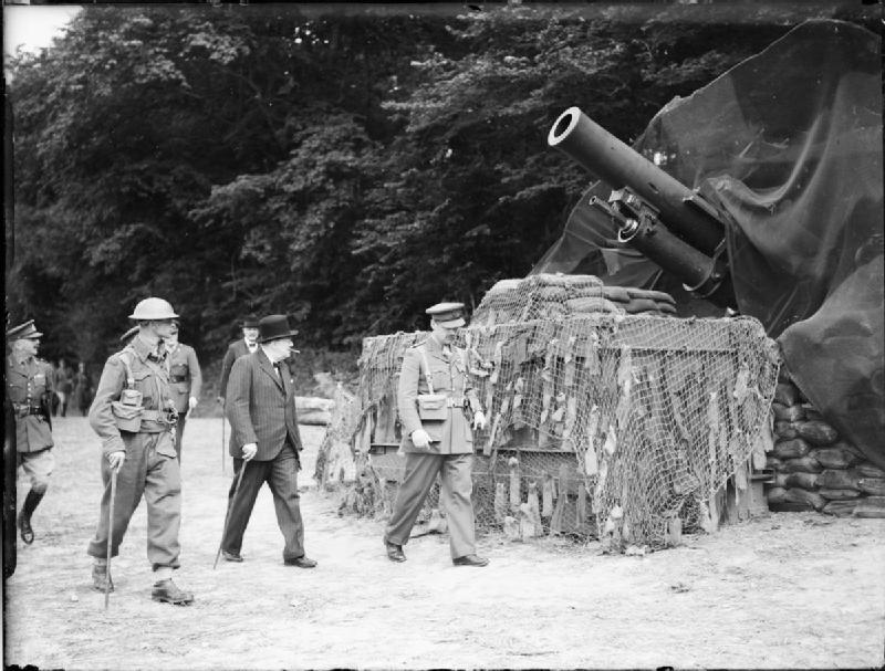 THE BRITISH ARMY IN THE UNITED KINGDOM 1939-45 Winston Churchill inspecting 9.2-inch Mk II howitzers of 57th (Newfoundland) Heavy Regiment, Royal Artillery, during a tour of East Coast defences. Comment 1 : The steel holdfast providing the base is visible above ground at front due to slope. The size of the 11 ton earth box mounted on it to provide stability is evident. Comment 2 : The IWM caption incorrectly identifies these as 9.2 inch guns.